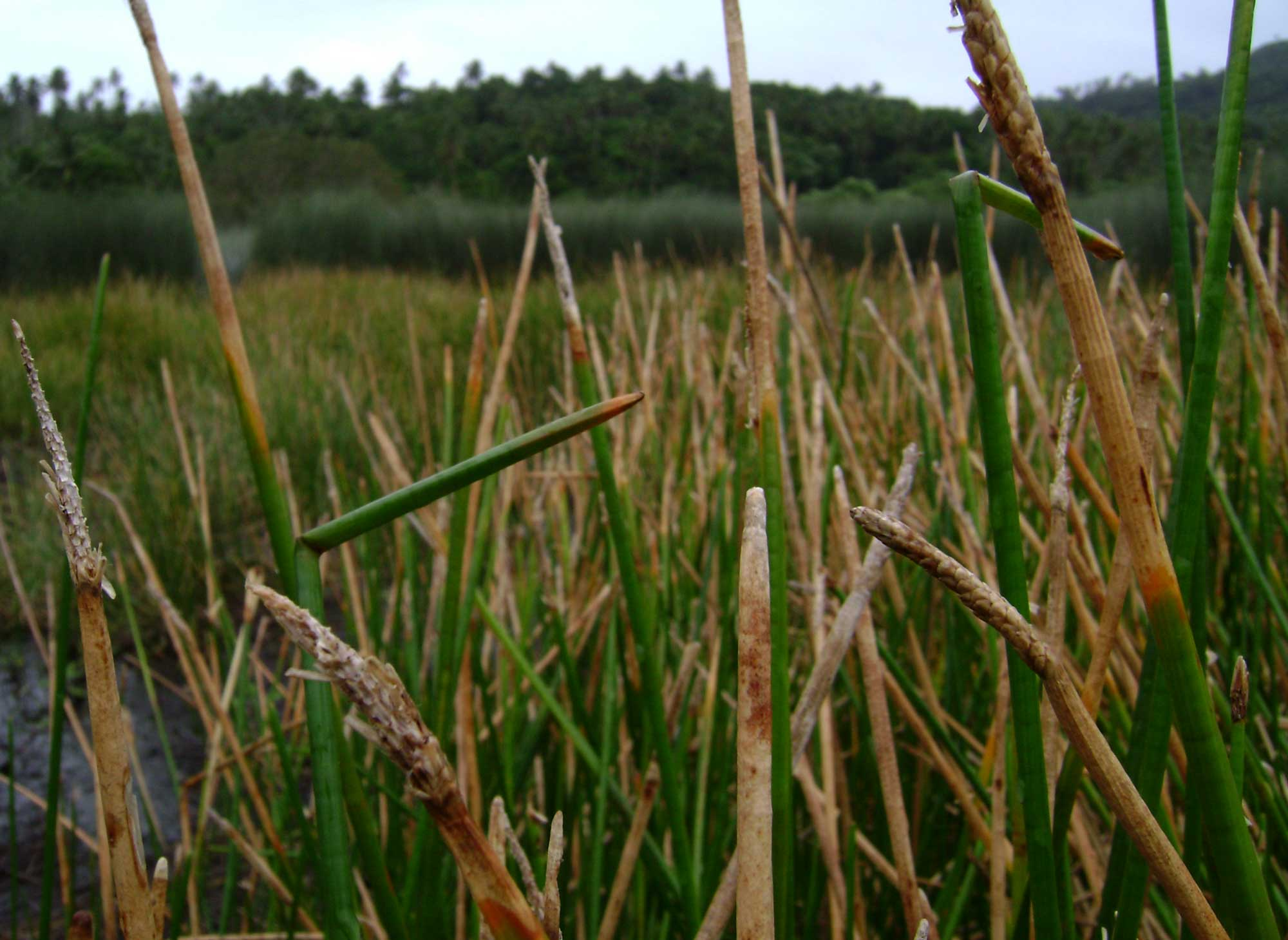 Eleocharis dulcis; (kuta fakafisi) in Ngofe swamp, Vavaʻu, Tonga